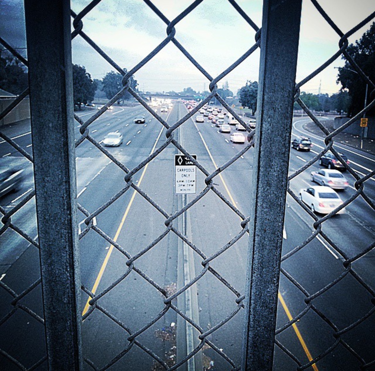 SR 99 South Sacramento